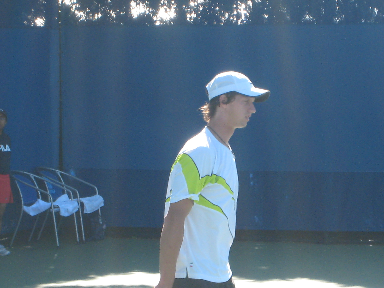 Filip Polasek at the 2008 Pilot Pen Tennis tournament.